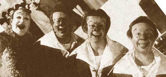 Spanish clowns Pompoff, Thedy, Nabucodonosorcito & Zampabollos